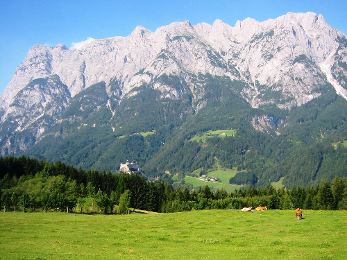 The mighty west face of the Tennengebirge in the Austrian Alps, seen from Hochkönig. Below left: Hohenwerfen Fortress. Extreme upper left: The Hochkogel, inside of which is the famous Eisriesenwelt